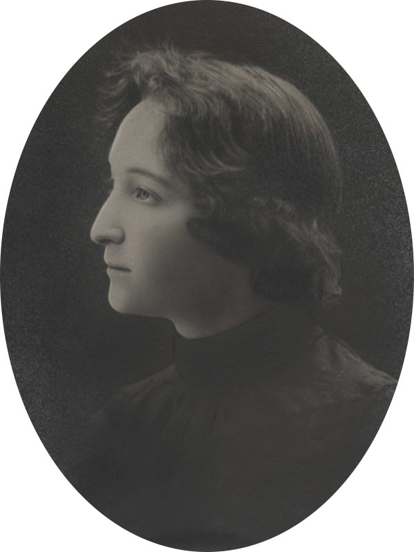 Tatiana Grigorovici (1877-1952), Austrian-Romanian sociologist, theoretician and activist of the Social Democratic Party